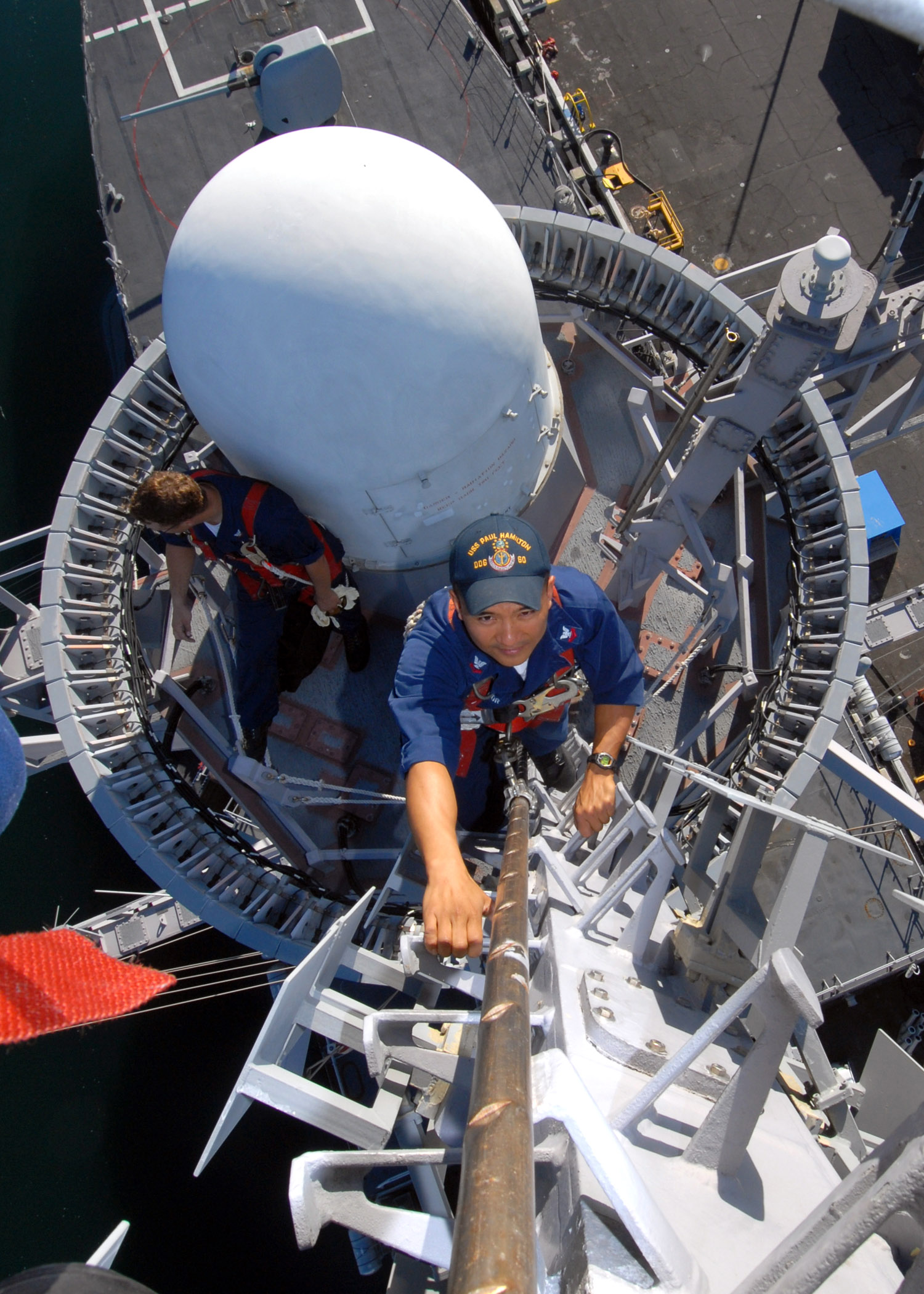 Pearl Harbor, Hawaii (Jan. 24, 2007) - Electronics Technician 2nd Class Joseph Melchor, assigned to the Arleigh Burke-class guided-missile destroyer USS Paul Hamilton (DDG 60), climbs the mast of the Paul Hamilton to perform pre-deployment maintenance on the International Maritime Satellite (INMARSAT) system. Paul Hamilton and her crew are currently making preparations to deploy as a member of the USS John C. Stennis (CVN 74) Carrier Strike Group. Stennis and its strike group are scheduled to enter 5th Fleet’s area of operation and provide support to U.S. and coalition forces operating there. U.S. Navy photo by Mass Communication Specialist 1st Class James E. Foehl (RELEASED)